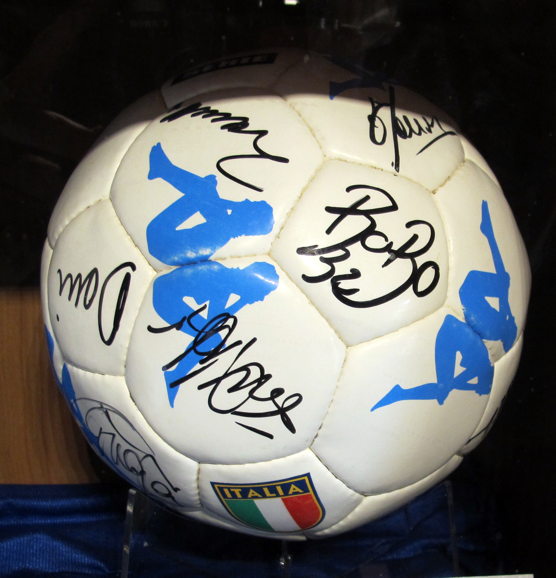 Collections of the Museo del Calcio (Florence)